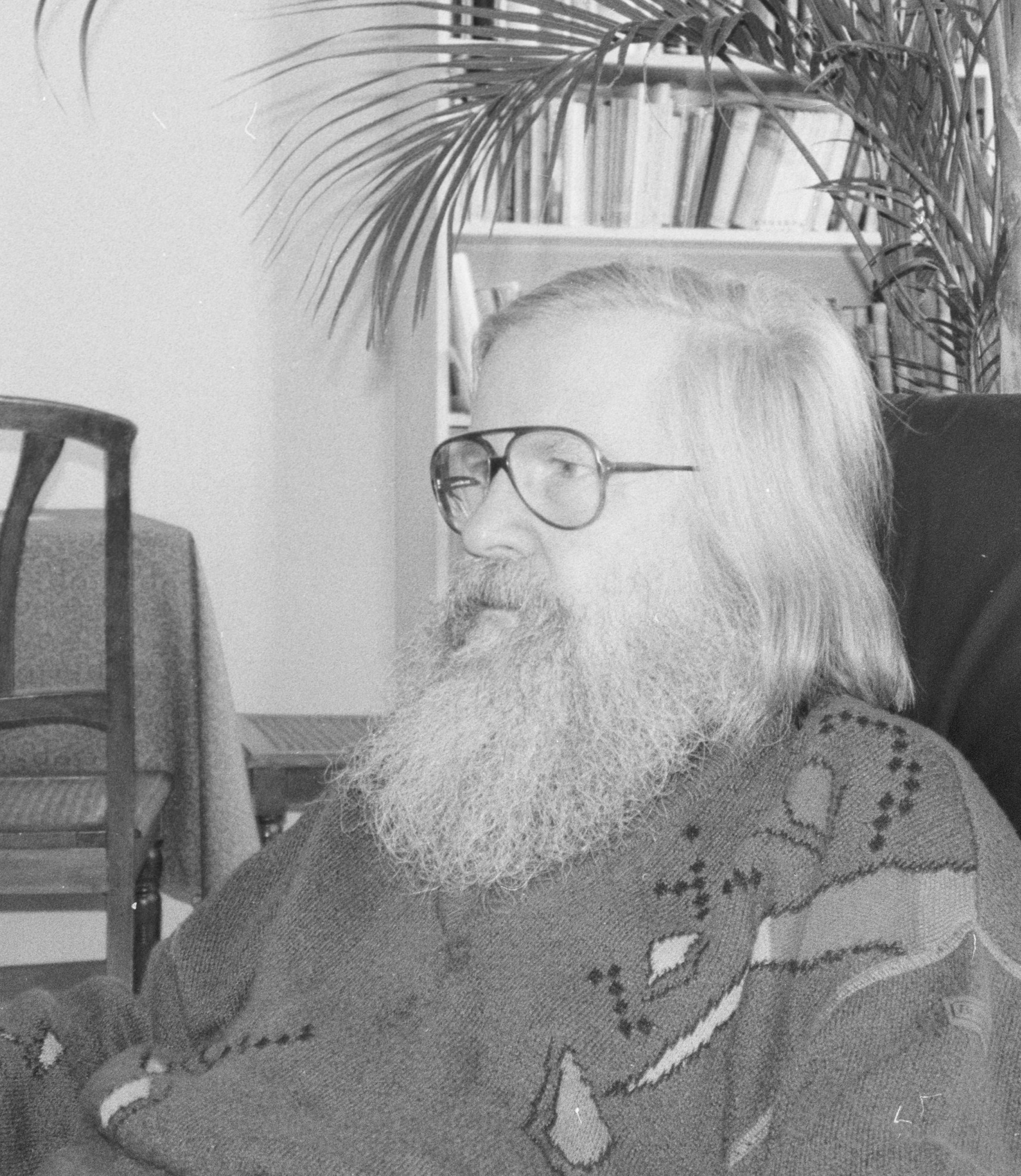 Chlodwig Poth at home